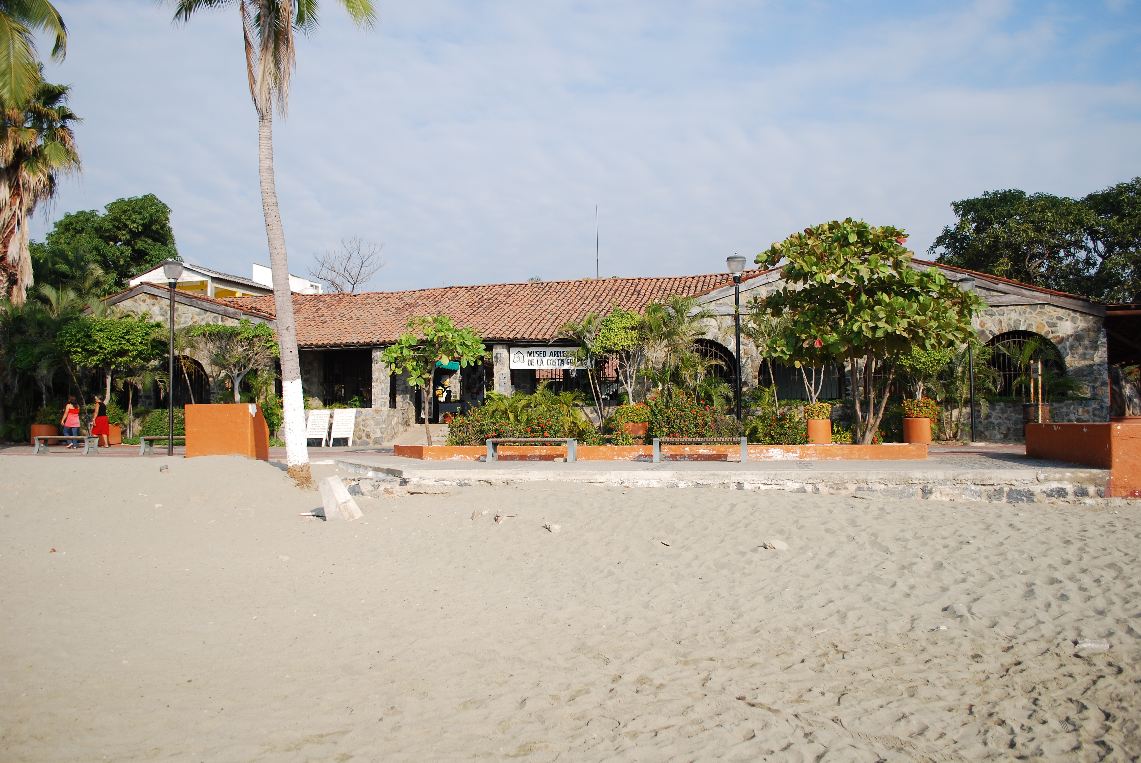 Facade of the Museo Arqueologico de la Costa Grande in Zihuatanejo, Mexico